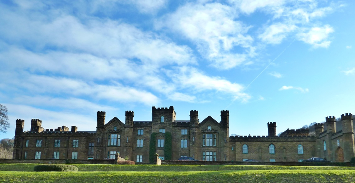 Wilton Castle, Teesside